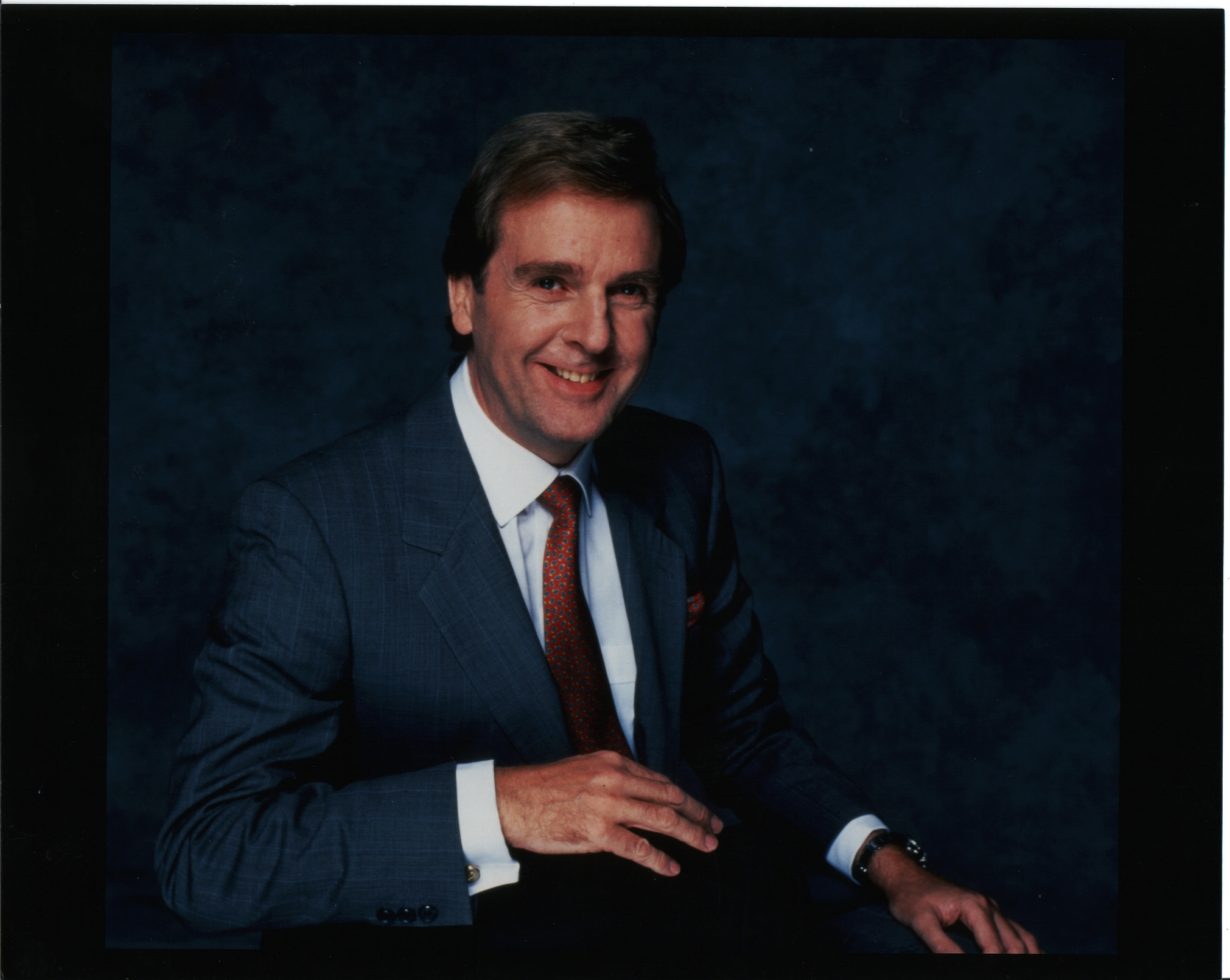 Christopher Morris. Born 28 March 1938, Luton, Bedfordshire, England, UK Occupation: Journalist, Broadcaster and Author Notable credit(s): Special Correspondent for BBCbTV News, Senior presenter Sky News, Managing Director, OmniVision Ltd, Pinewood Studios, Buckinghamshire Author, The Day They Lost The H Bomb